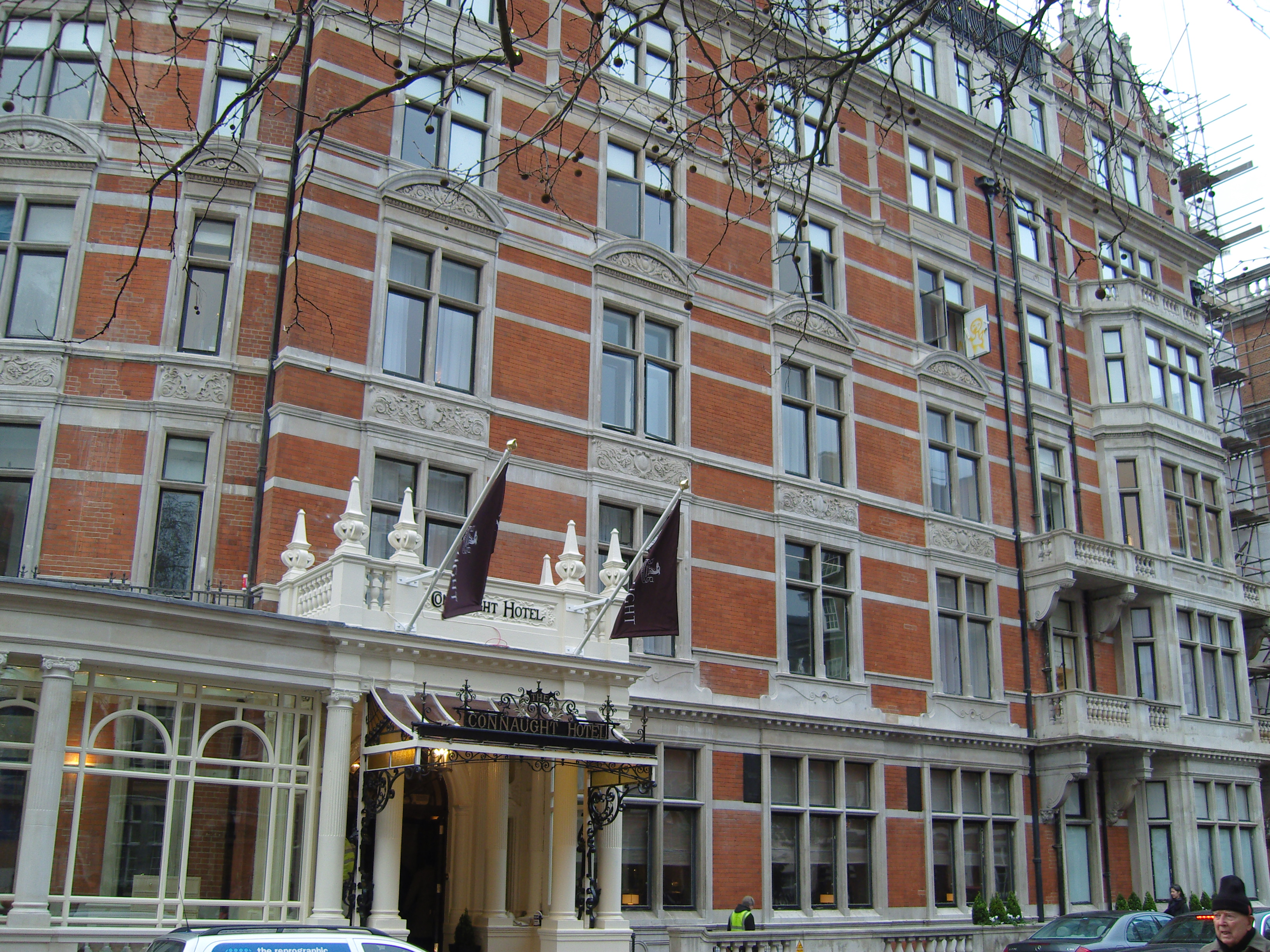 This is The Connaught, following its re-opening. Note the new covered terrace area to the left of the door.